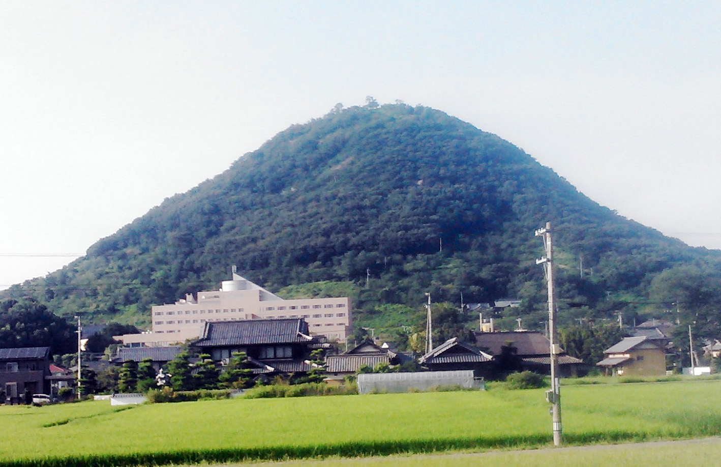 Mt. Shirayama South side at Miki,Kagawa.